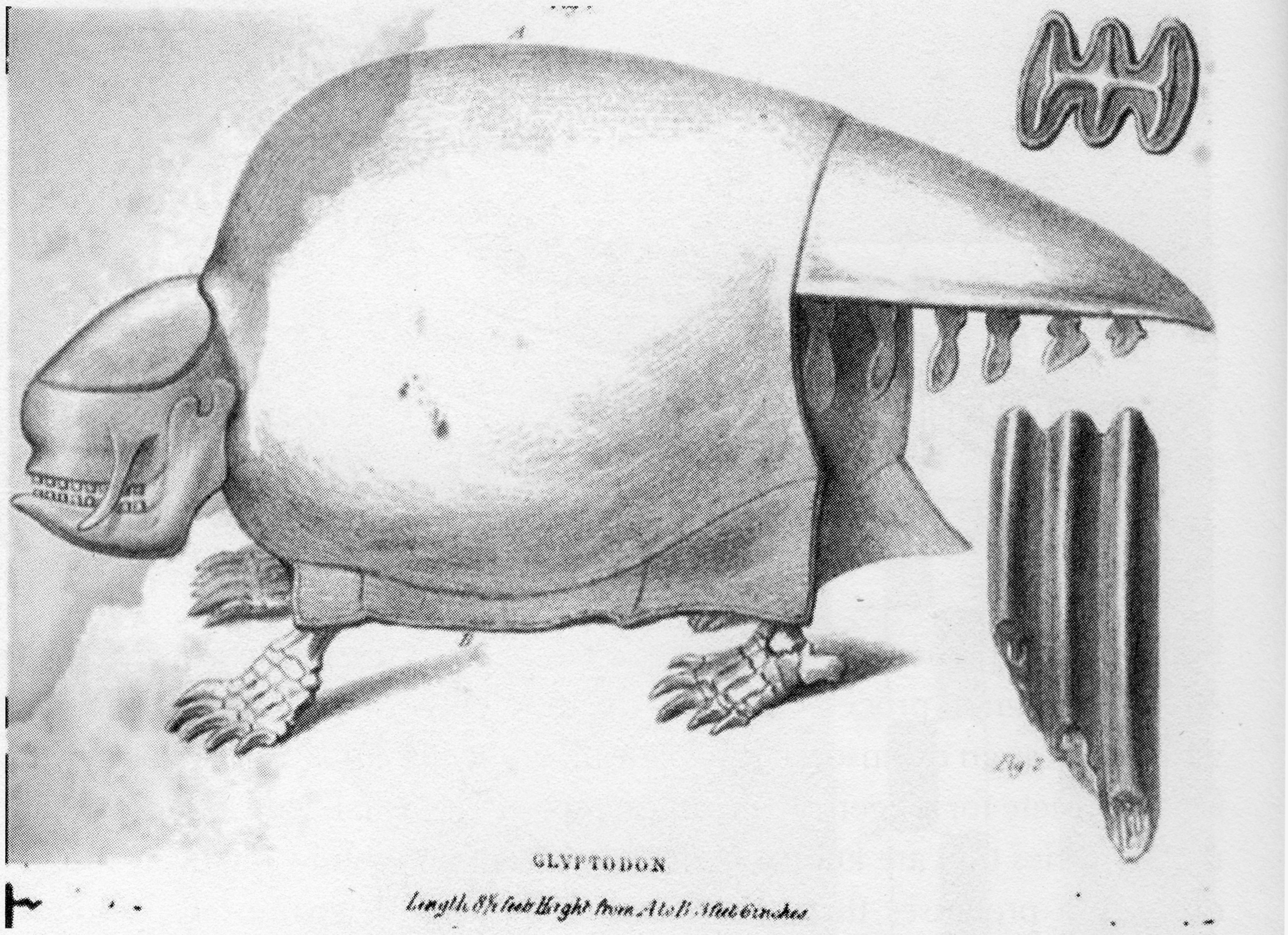 Resconstruction of Glyptodon, first published by Richard Owen (1804-1892)